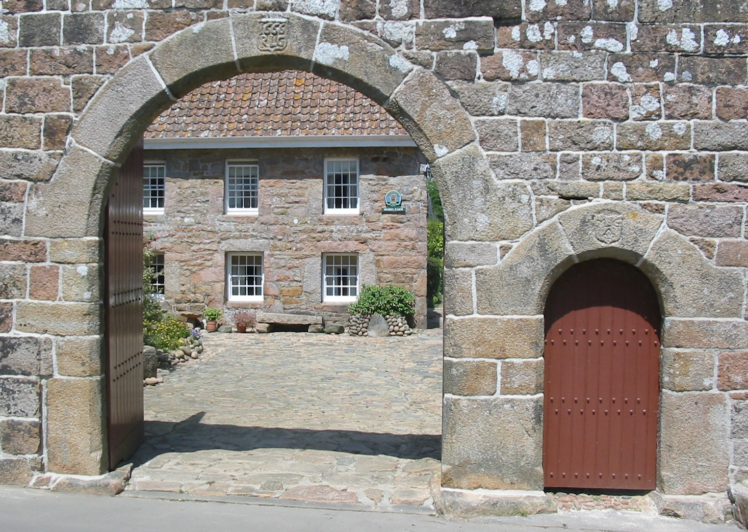 Entrance to Morel Farm, a National Trust for Jersey property in Jersey Photo taken by Man vyi with Canon PowerShot A40 on 11/6/2005 See also Image:Tou d'preinseu, Jèrri.jpg for an interior view.